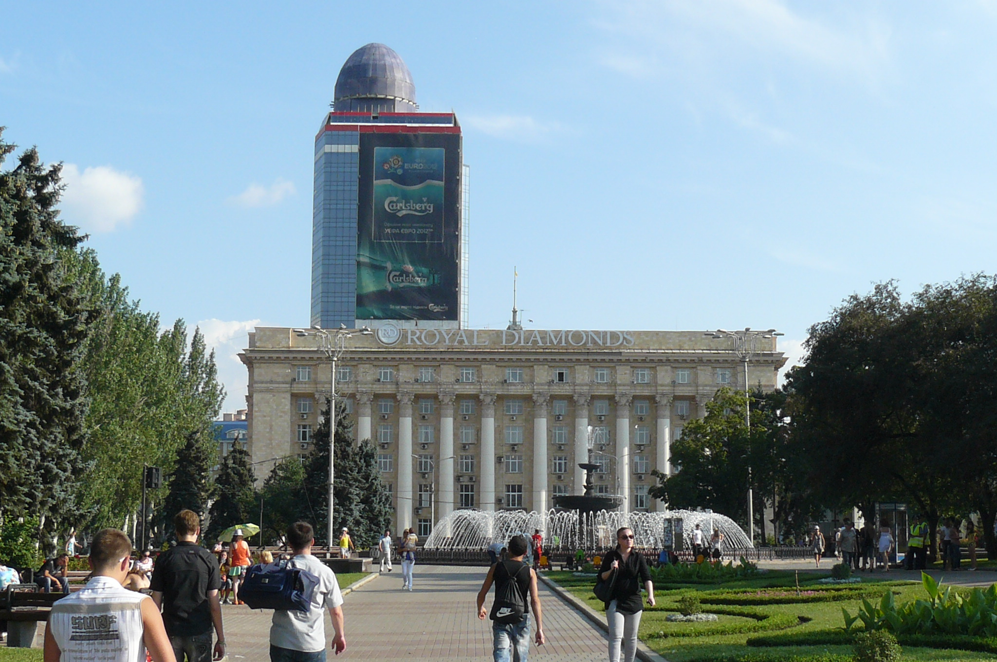 Lenin Sq., Donetsk.